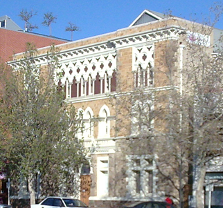 Wakefield Residence- formerly Our Boys Institute with heritage listed facade.